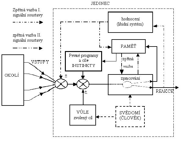 Block diagram of information flow in inteligent system